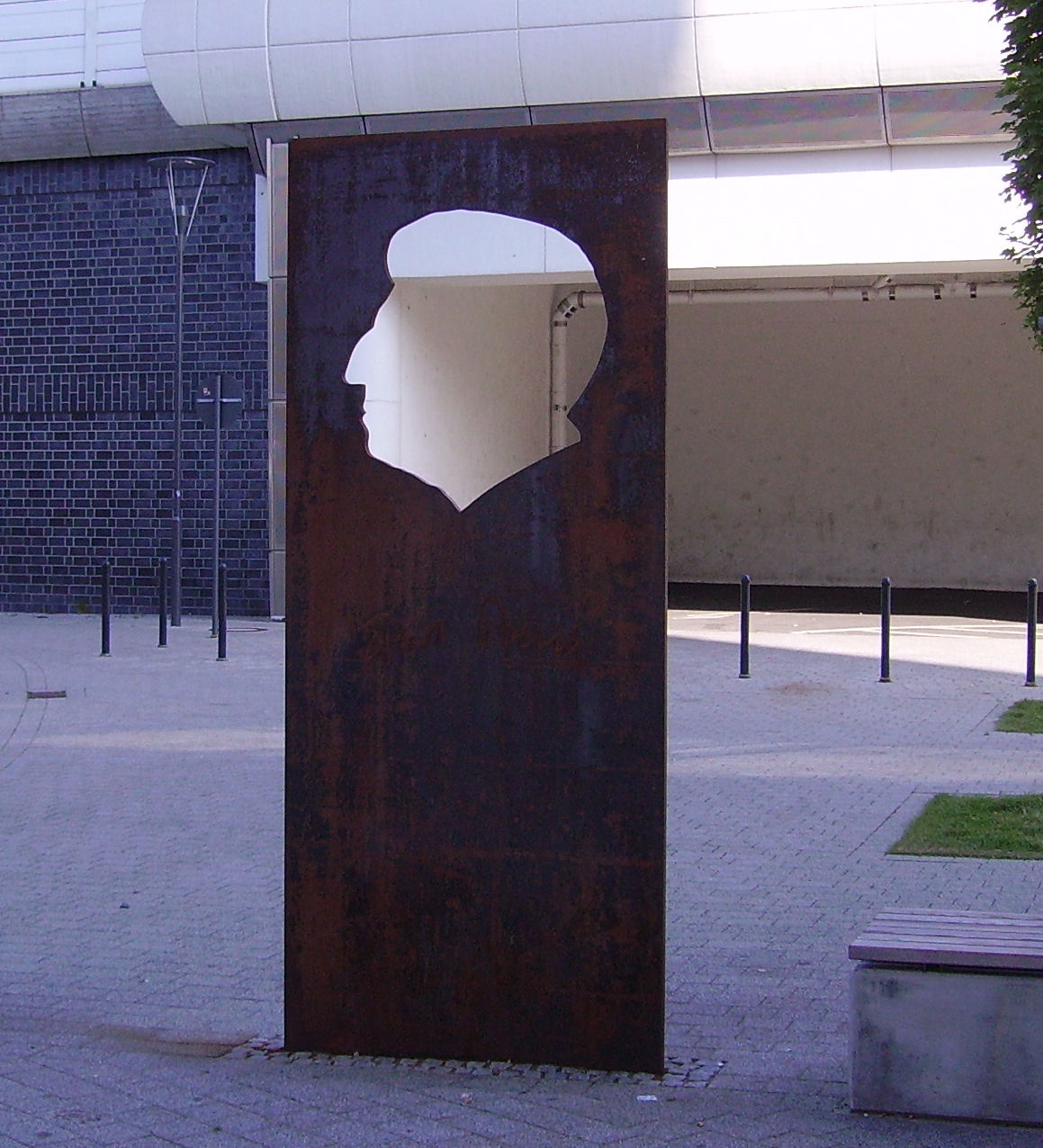 monument in Ludwigshafen, Germany